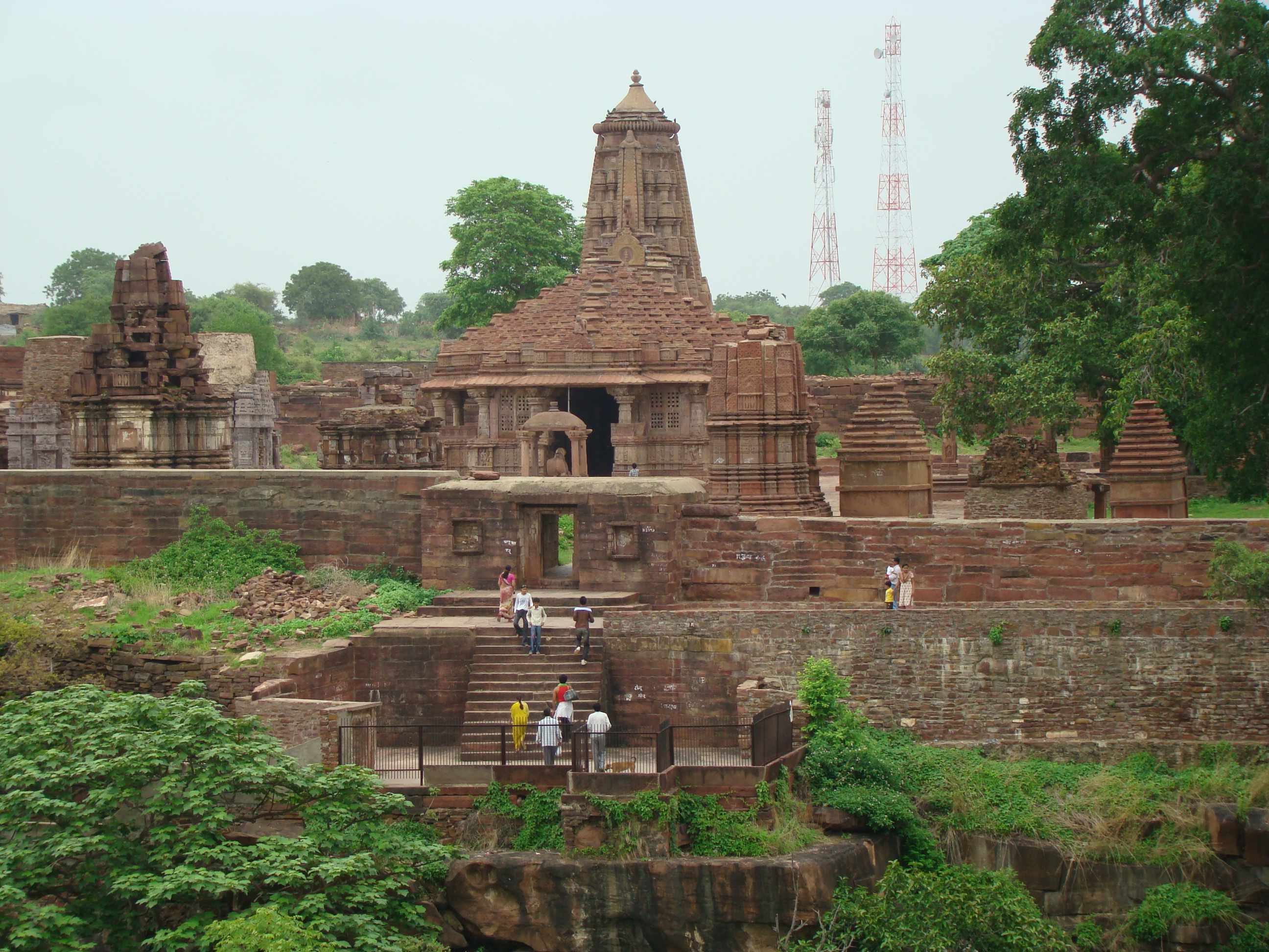 Mahanal temple complex, Menal